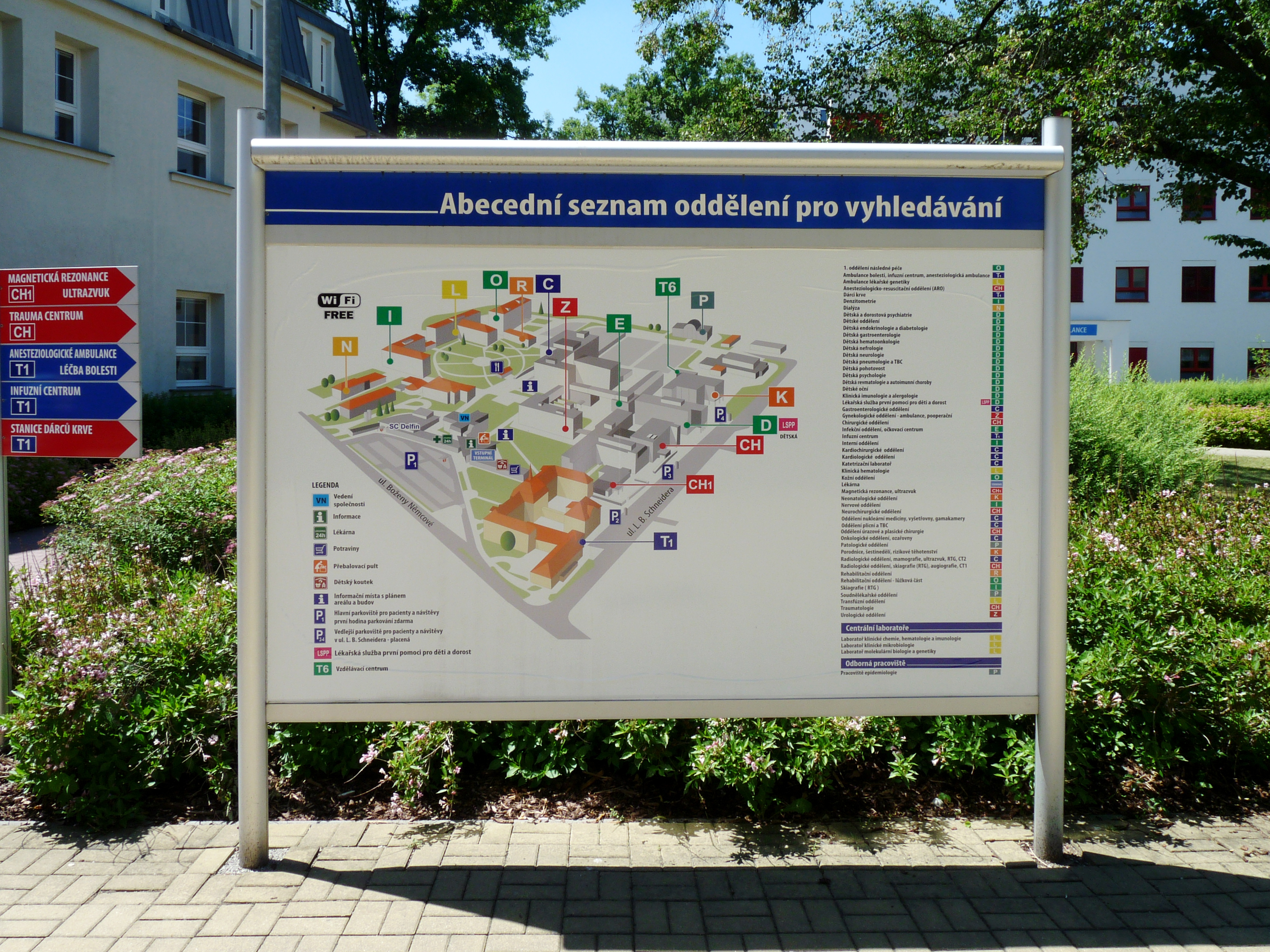 Plan of the hospital in České Budějovice, South Bohemian Region, Czech Republic.